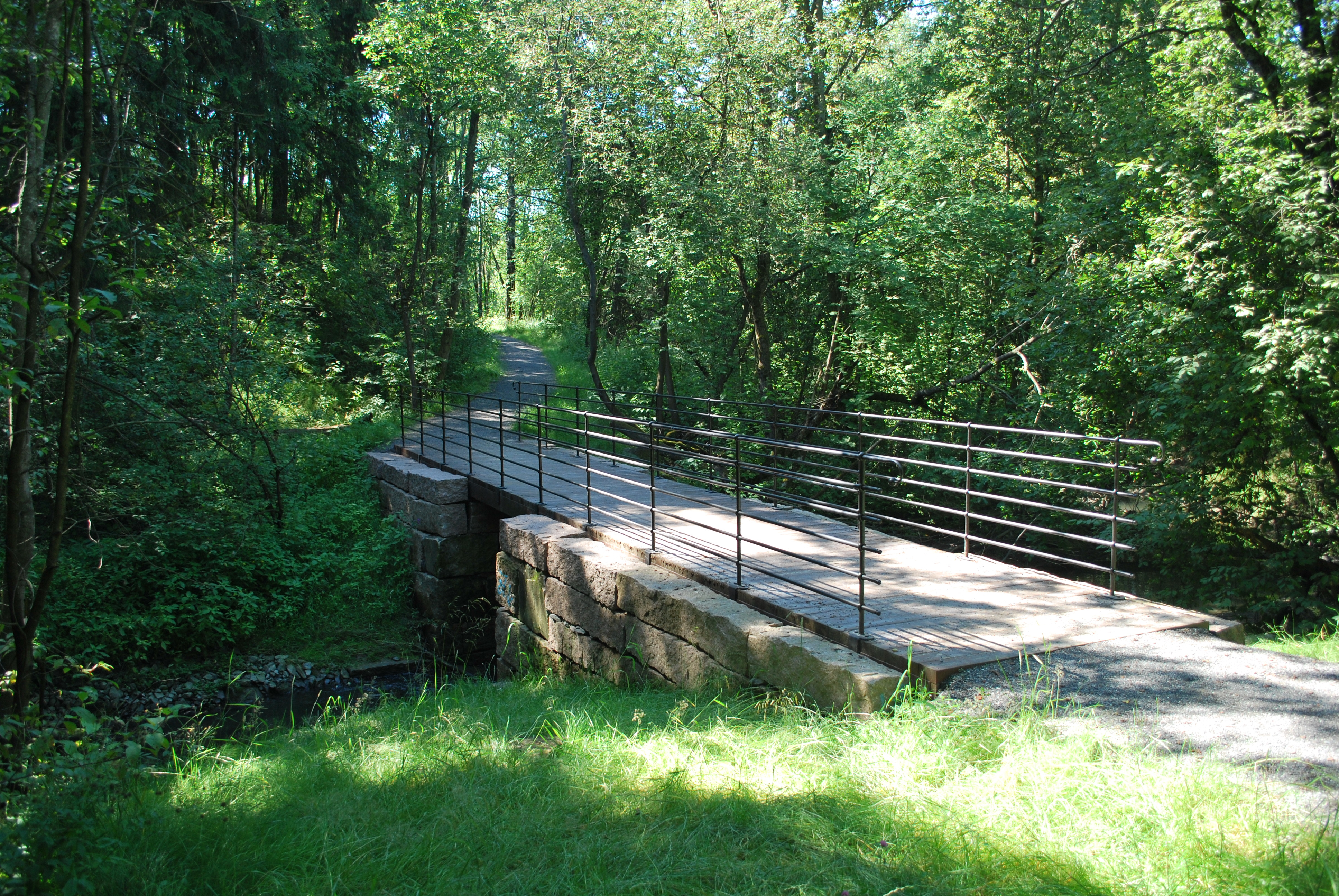 Alnaparken, bridge over river Alna. Turvei (park trail) D10